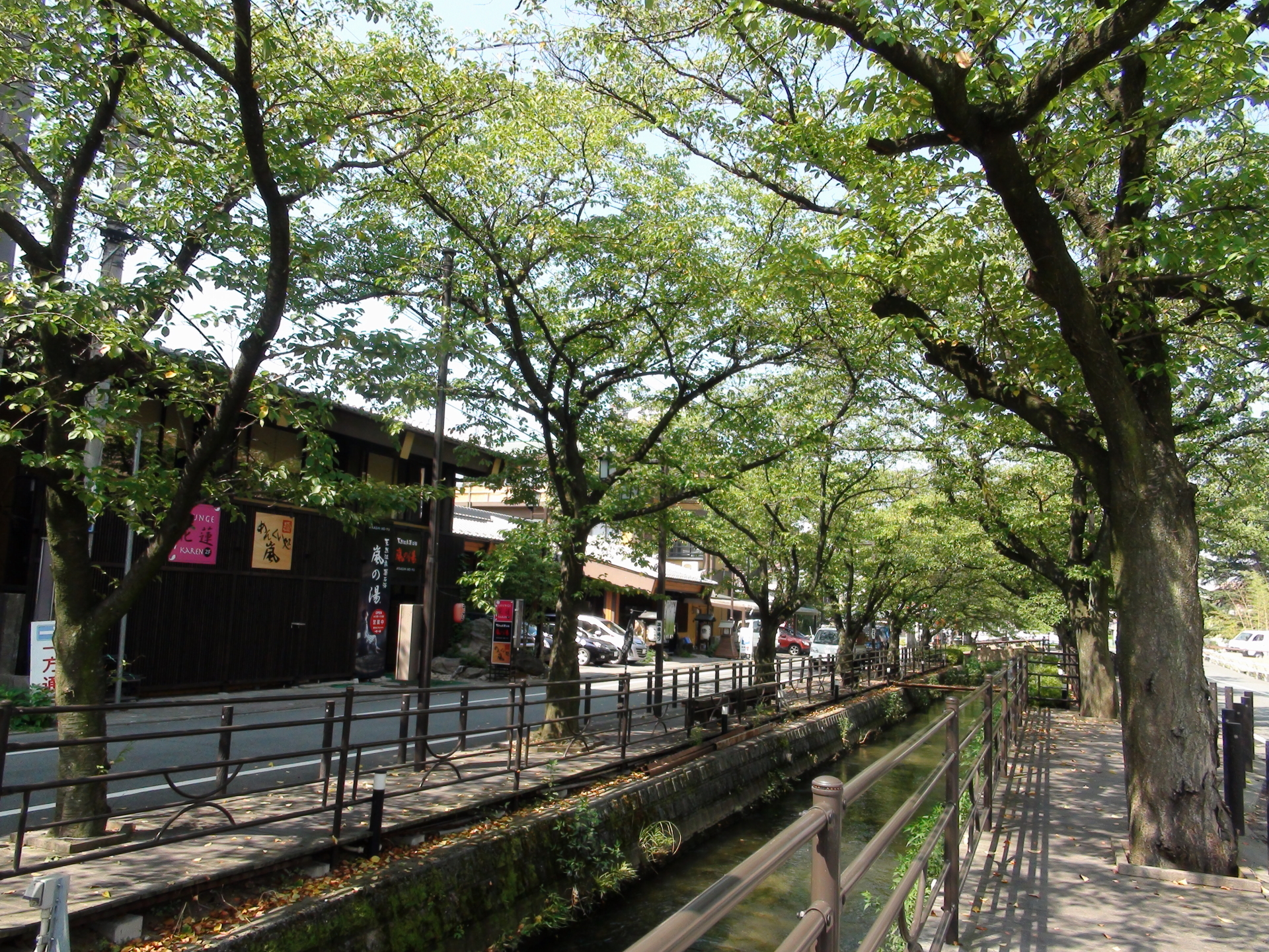 Isawa Hot Springs Creek Aug.2013